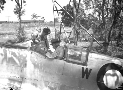 Australian War Memorial image 082297A. A Royal Air Force pilot explains the sighting mechanism of a Spitfire fighter to Billy Hughes at Darwin.